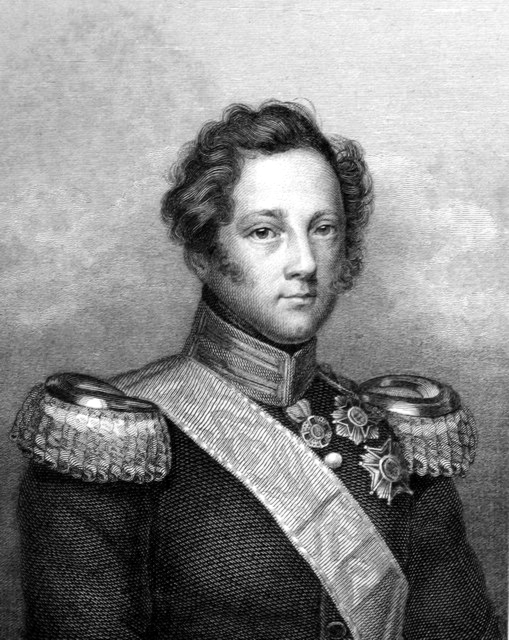 Grand Duke Leopold of Baden